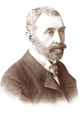 Photo of Alberto Sampaio, portuguese historian (1841-1908)